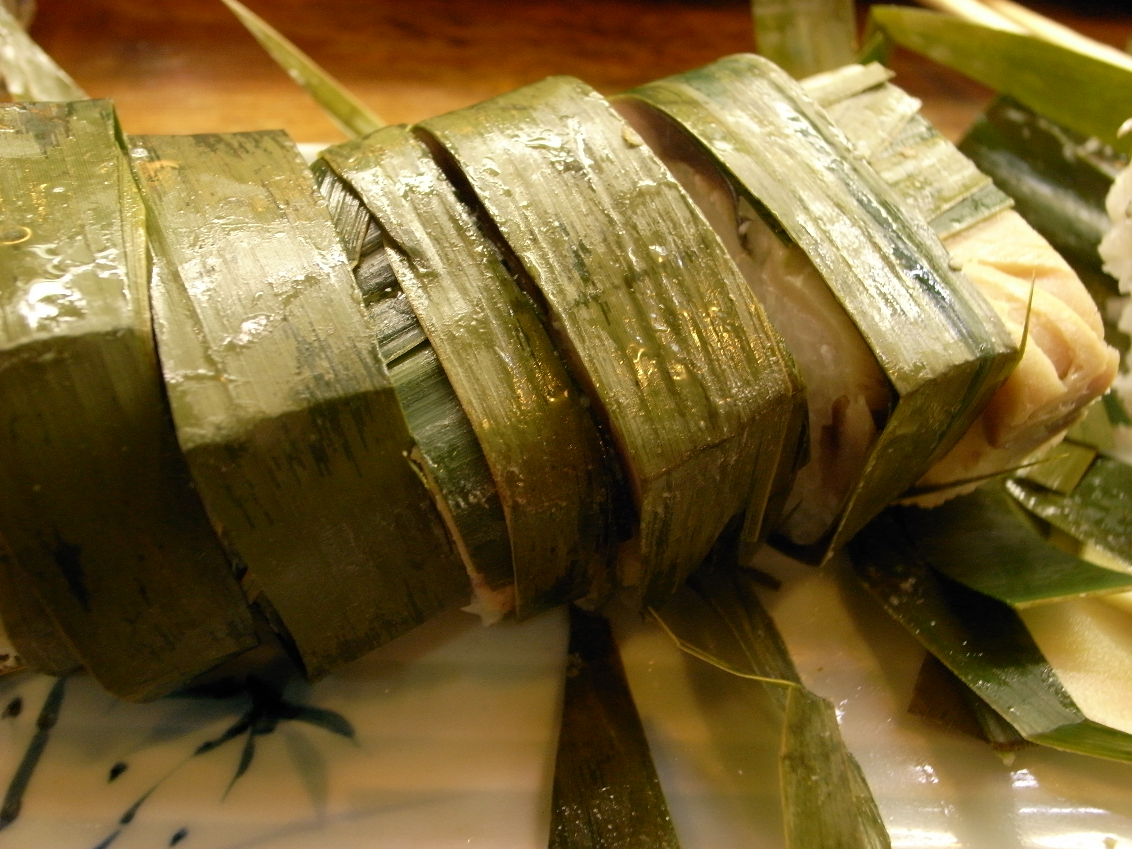 Nare sushi (fermented saba sushi) in Wakayama city, Japan.